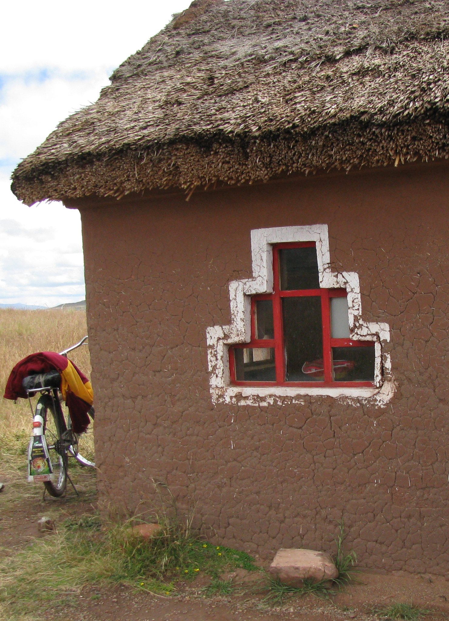 Puma_Punku